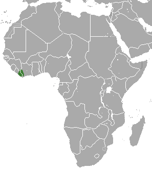 Liberian Mongoose (Liberiictis kuhni) range